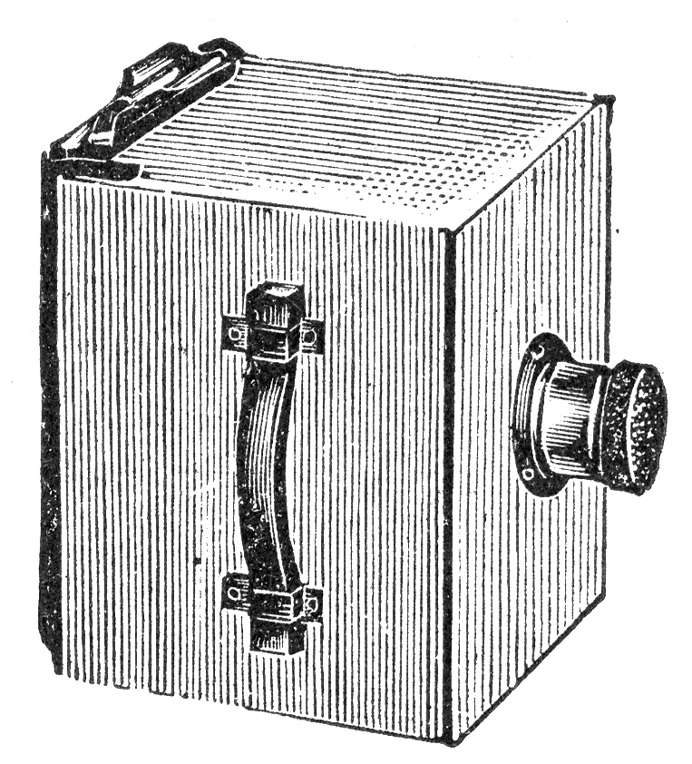 LUX - a historic camera from Emil Wünsche, Reick , about 1904